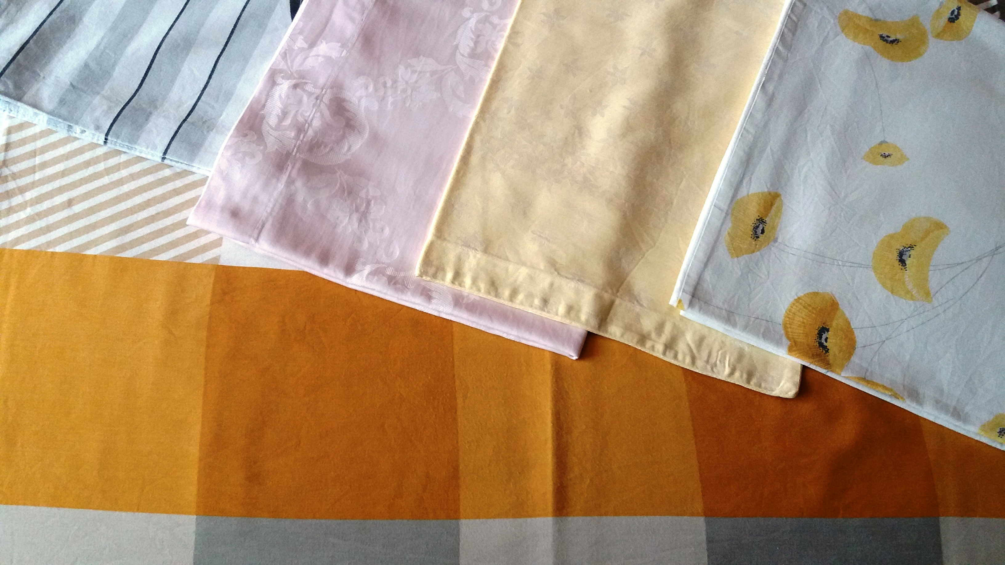 Pillowcases made of natural materials